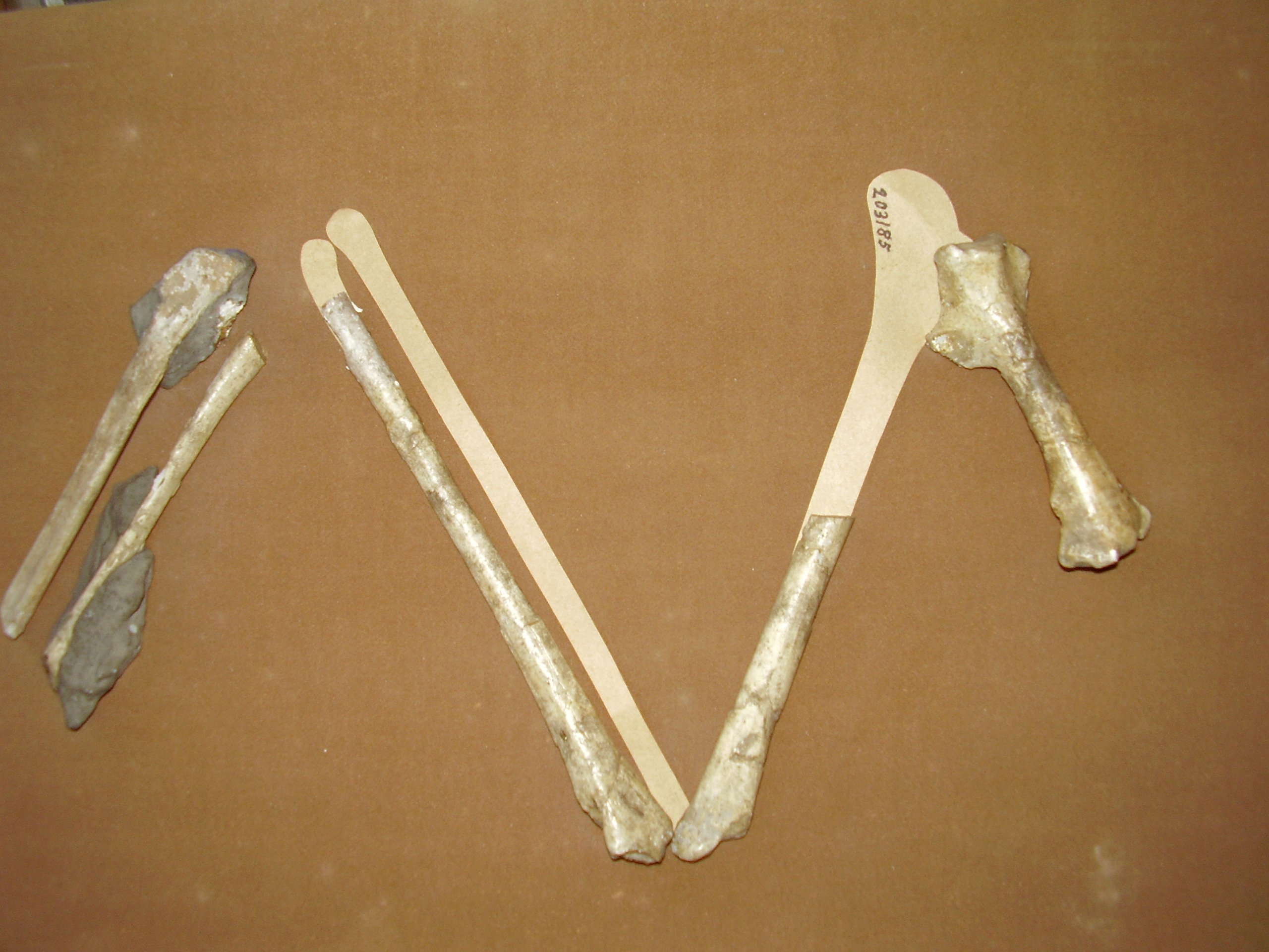 Fossils of a pterosaur Cretornis hlavatschi, found in 1880 near Choceň (Czech Republic)